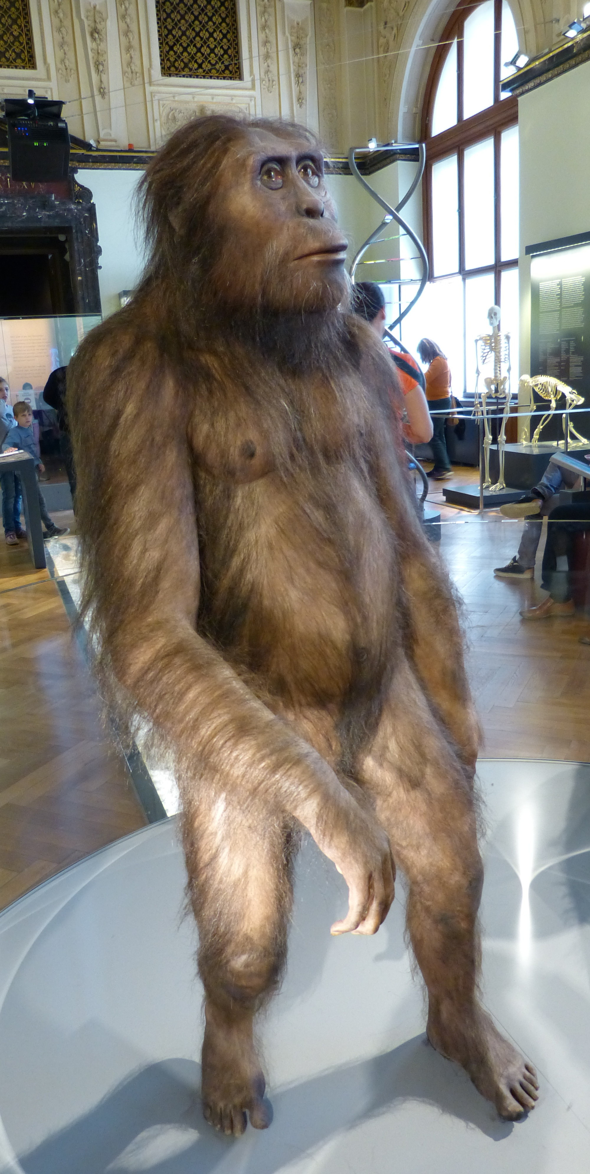 Natural History Museum, Vienna ( Austria ). Model of a male Australopithecus afarensis.